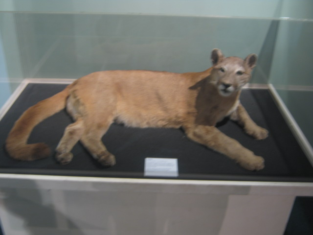 Puma captured in the wild in Scotland 1980. Now in Inverness museum.